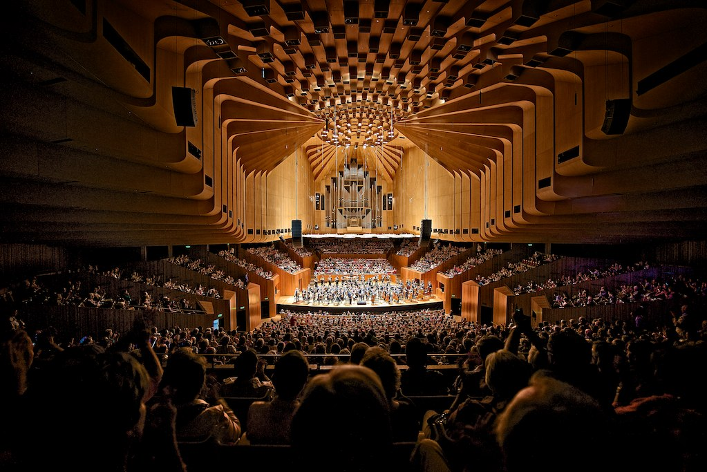 SOH interior, 2014